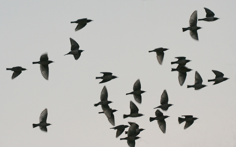 Rosy Starling Sturnus roseus in Vadodara, Gujarat, India.